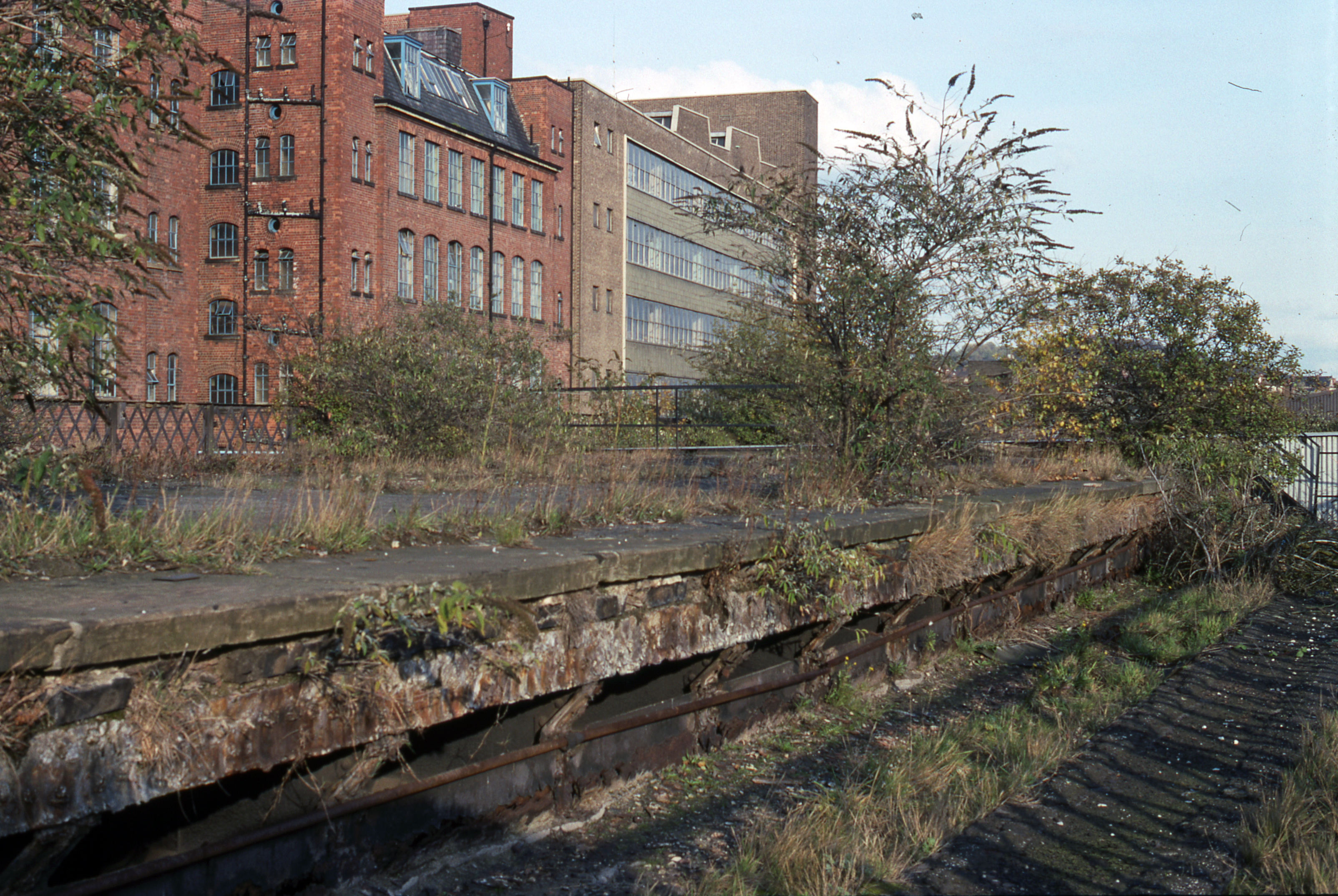 Platform at the disused Nottingham London Road High Level railway station, photographed in early autumn 1992.